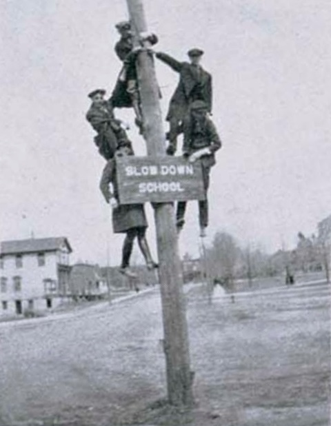 Caption reads "Highest Attainment," from the 1919–1920 Sturgeon Bay High School yearbook. This is not the only photo labeled "Highest Attainment" in the Flashes yearbook volumes.